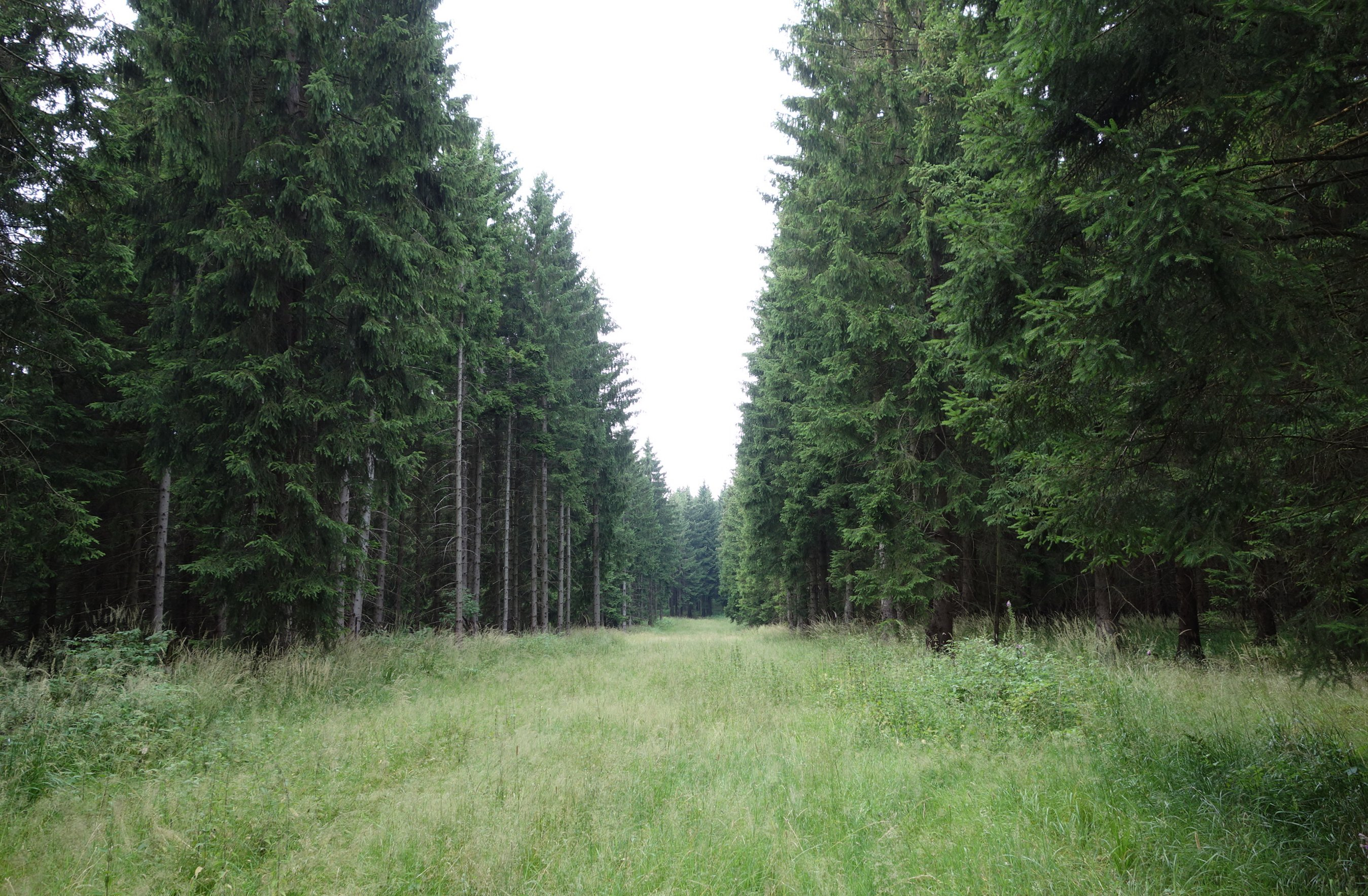 forest aisle (cutline) in Harz mountains, Germany